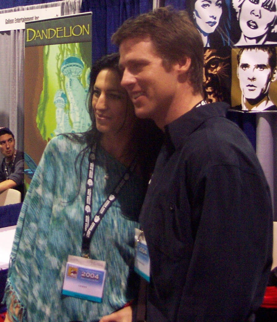 Claudia Black and Ben Browder. Image is cropped from photo captioned "Ben and Claudia at the Save Farscape fan booth." At the 2004 San Diego Comic-Con International.